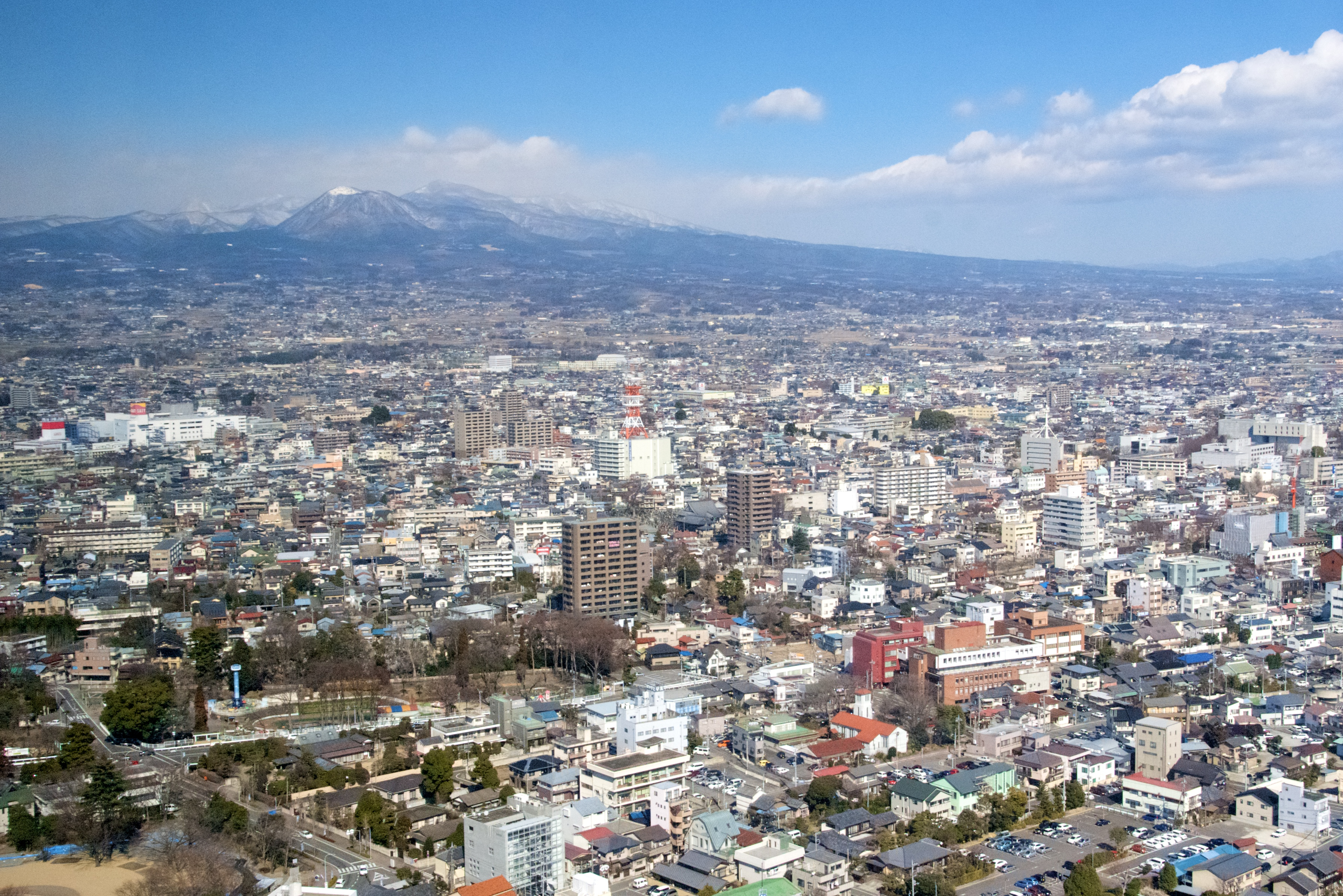 A View from Maebashi looking Northeast towards Mount Akagi and Kiryu. Taken from the top of the 32 Story Prefectural Government Office (kencho) in downtown Maebashi.